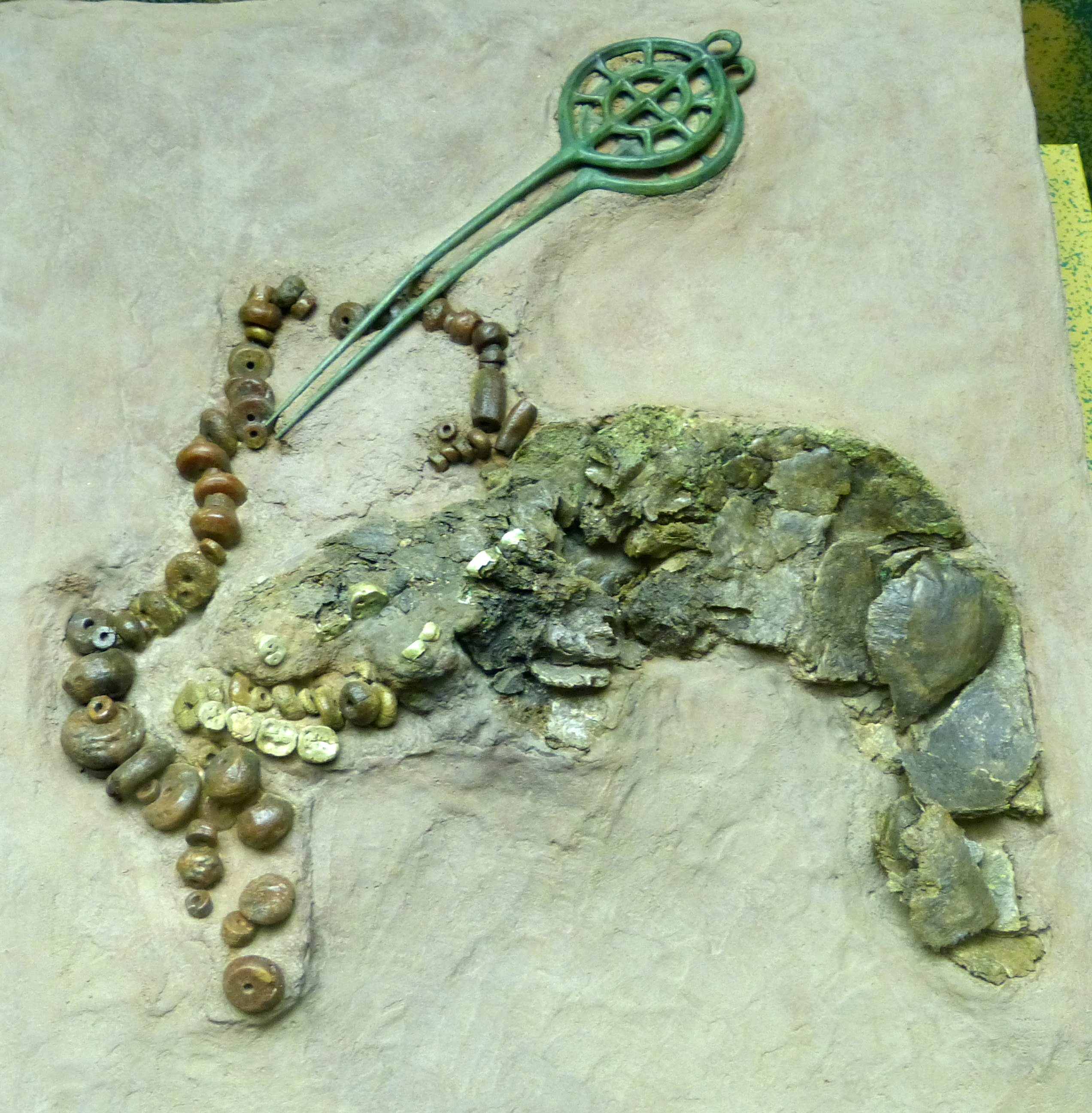 Weimar ( Thuringia ). Museum for Prehistory in Thuringia: In-situ-remnants of a Bronze Age woman's grave ( Hill C1, grave 1 ) in Schwarza.